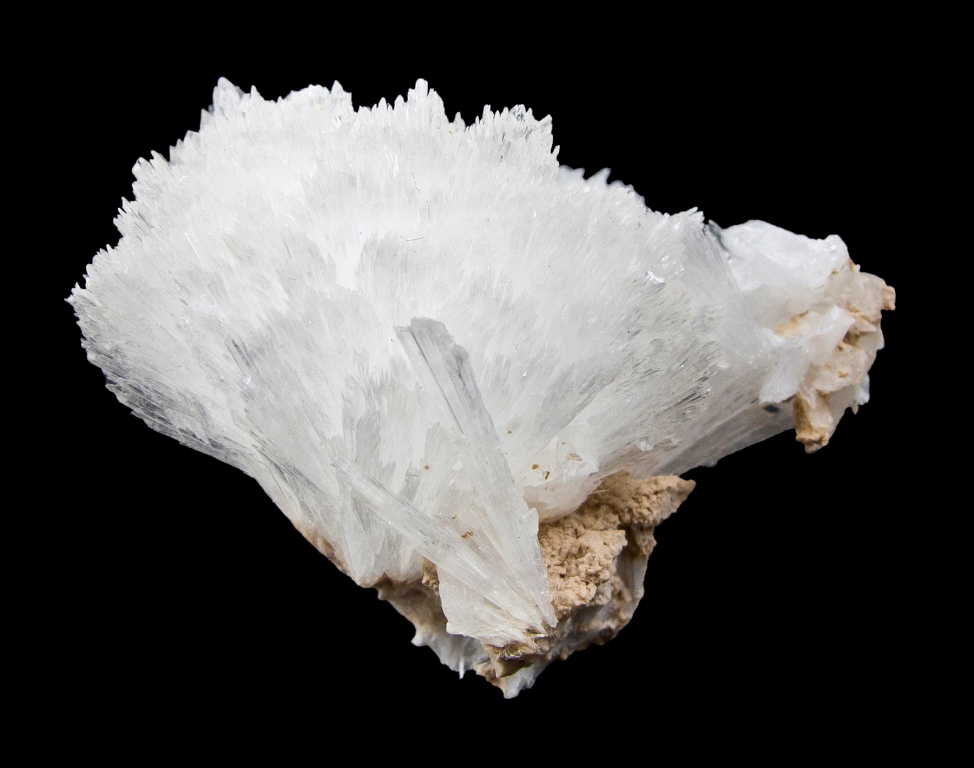 Hydroboracite Locality: Boraxo Mine (Kern Borate Mine; Boraxo deposit; Boraxo No. 1 and No. 2; Clara claim; Thompson Mine; Tenneco Mine), Ryan area, Death Valley, Inyo County, California, USA (Locality at ) Size: 3.4 x 2.5 x 2.3 cm Emanating from a sliver of matrix is an aesthetic, radiating cluster of acicular, lustrous and translucent, colorless hydroboracite crystals, to 2 cm in length. This specimen was collected in 1970 by Jim Minette with Dave Wilber. A superb example of this rare species. Ex. Al Ordway Collection.